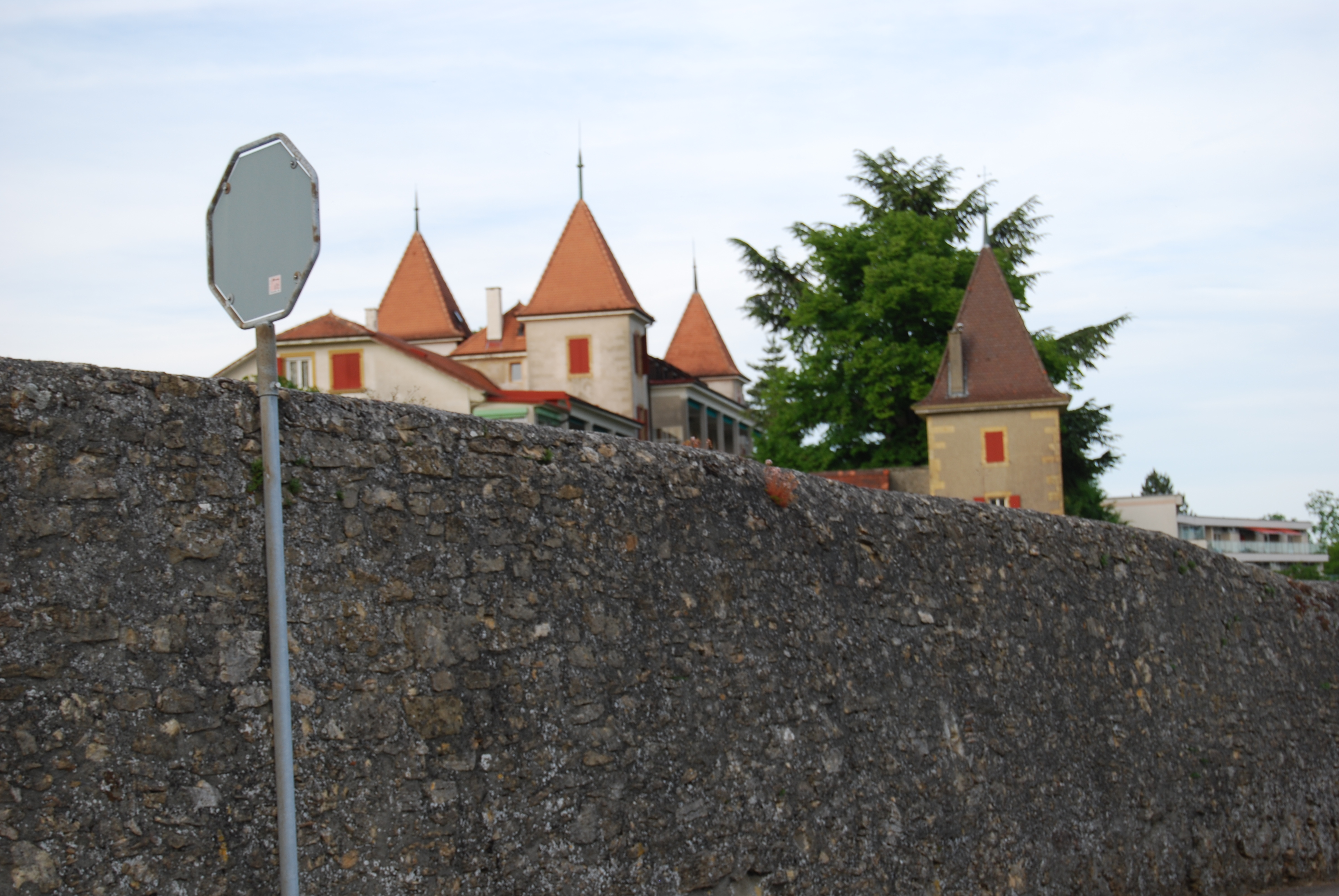 Castle Chamblon, canton of Vaud, Switzerland